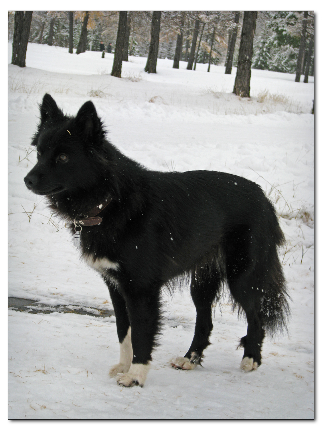 Фото Ненецкая лайка (оленегонный шпиц)